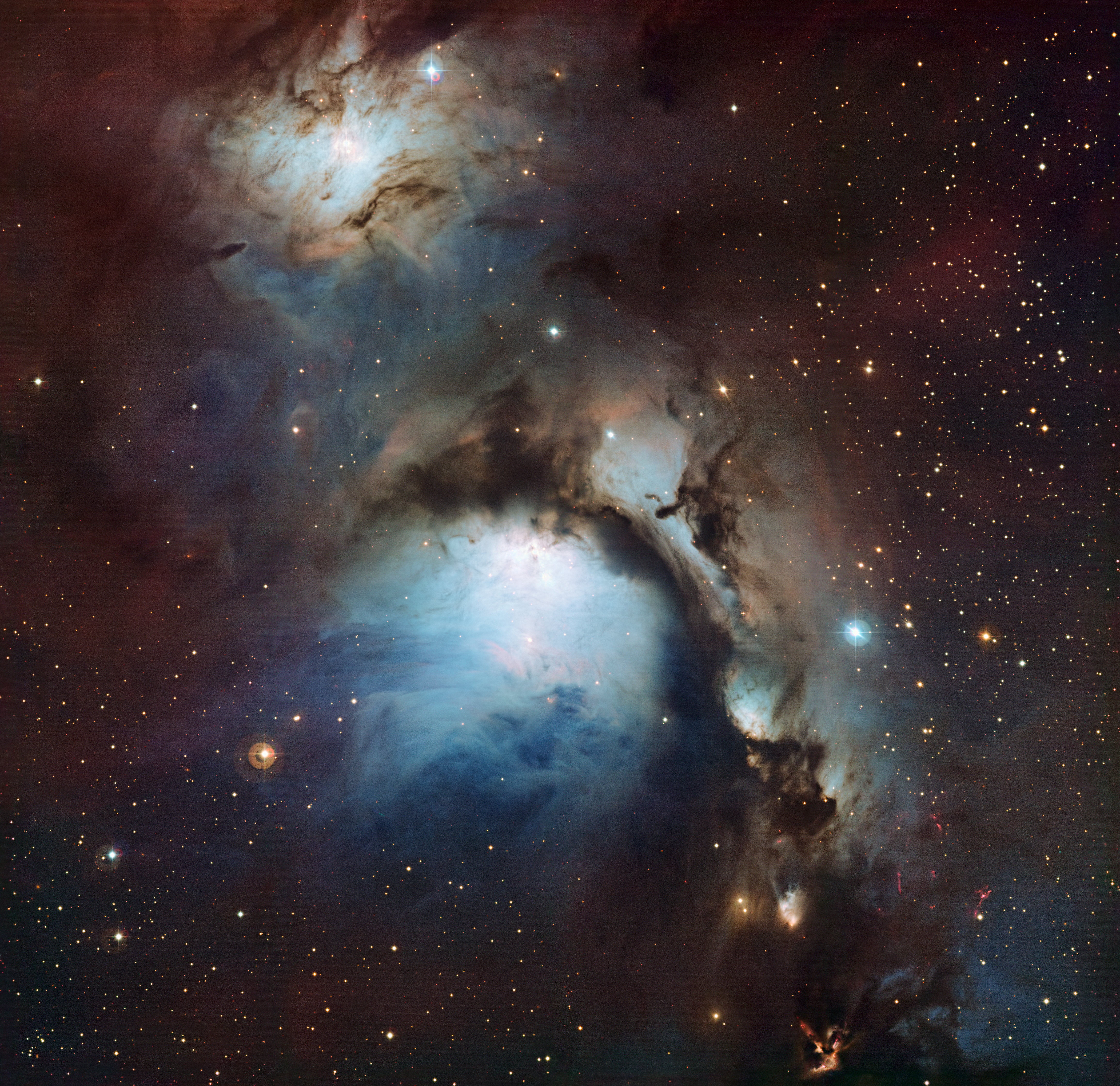 This new image of the reflection nebula Messier 78 was captured using the Wide Field Imager camera on the MPG/ESO 2.2-metre telescope at the La Silla Observatory, Chile. This colour picture was created from many monochrome exposures taken through blue, yellow/green and red filters, supplemented by exposures through a filter that isolates light from glowing hydrogen gas. The total exposure times were 9, 9, 17.5 and 15.5 minutes per filter, respectively.